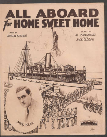 sheet music cover with inset photo of mel klee